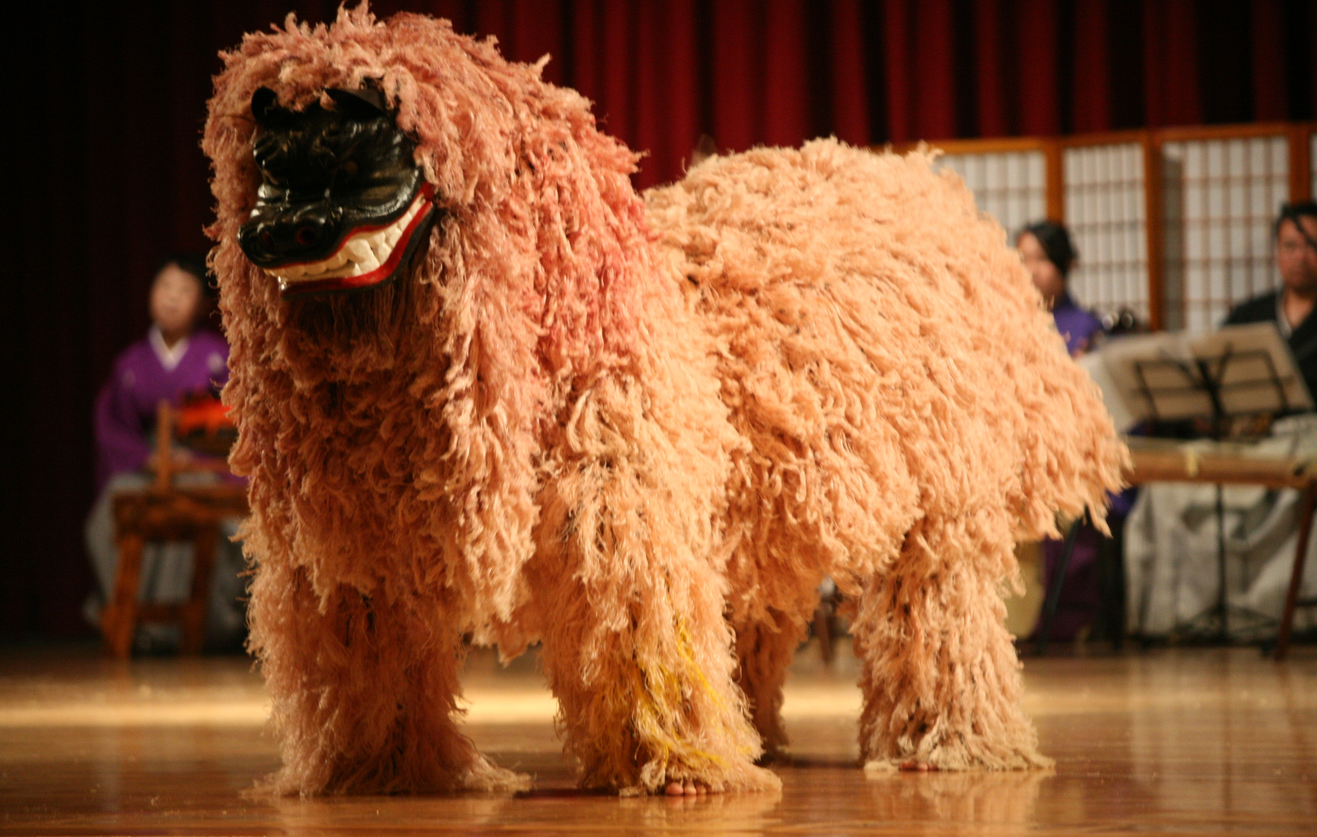 Dancers perform the Shishi Mai, or Lion Dog dance, during the Okinawan Dance Appreciation Night hosted by the Marine Corps Community Services at the Fine Arts Appreciation Theater on Camp Foster Nov. 25. The lion dogs were adopted from the Chinese during the Ryukyu Kingdom period. The dance is traditionally performed for New Years, holidays and other celebrations. Unit: III Marine Expeditionary Force DVIDS Tags: Marine; Japan; Okinawa; Marine Corps Community Services; III Marine Expeditionary Force; service member; MCCS; Camp Foster; Marine Corps; Marines; III MEF; MCIPAC; Marine Corps Installations Pacific; Okinawan Dance Appreciation Night; Nicholas S. Ranum